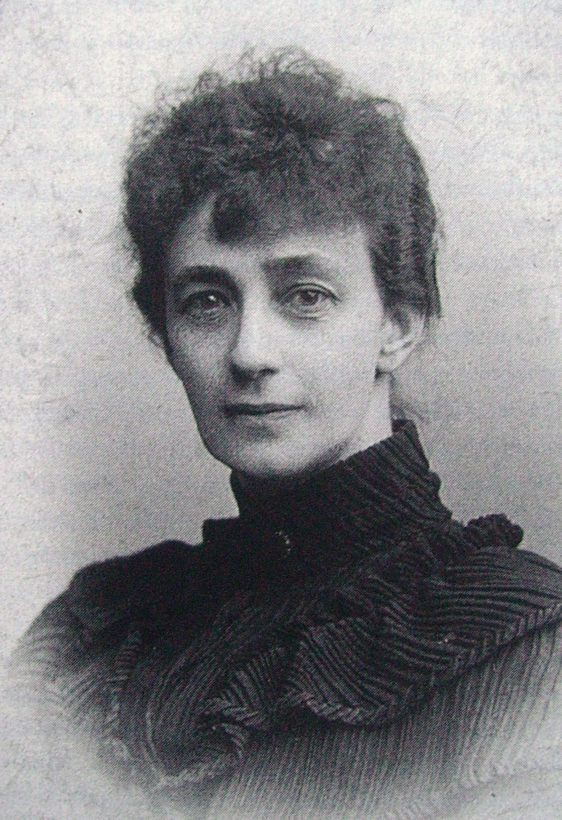 Picture of Sophie Elkan, Swedish writer